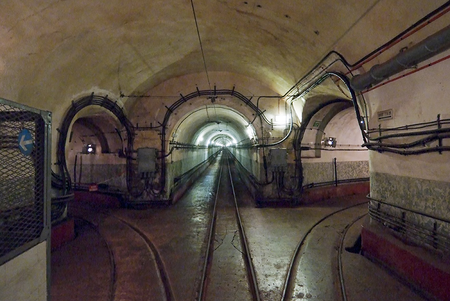 Fort Hackenberg at Veckring/Loraine, France